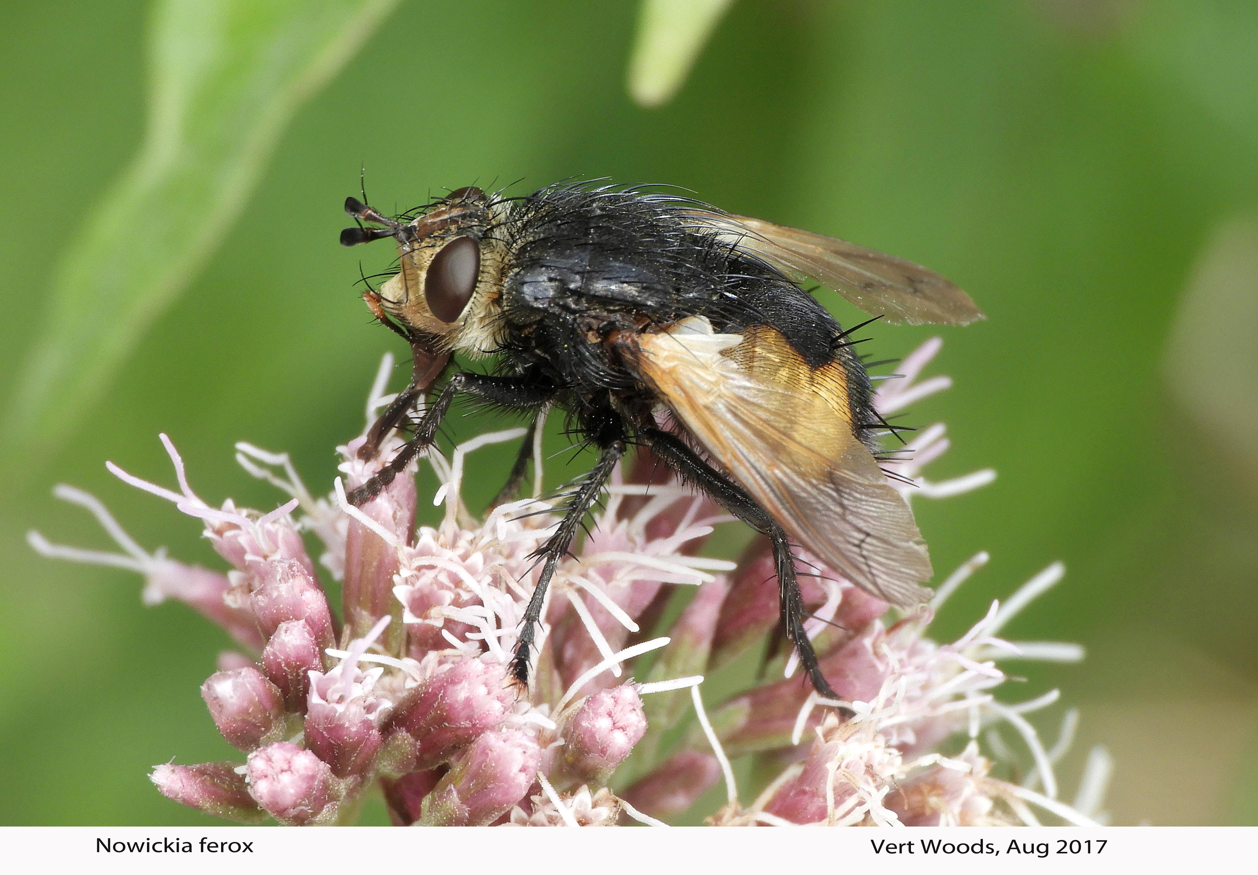 Taken in Vert Wood, East Sussex, Aug 2017